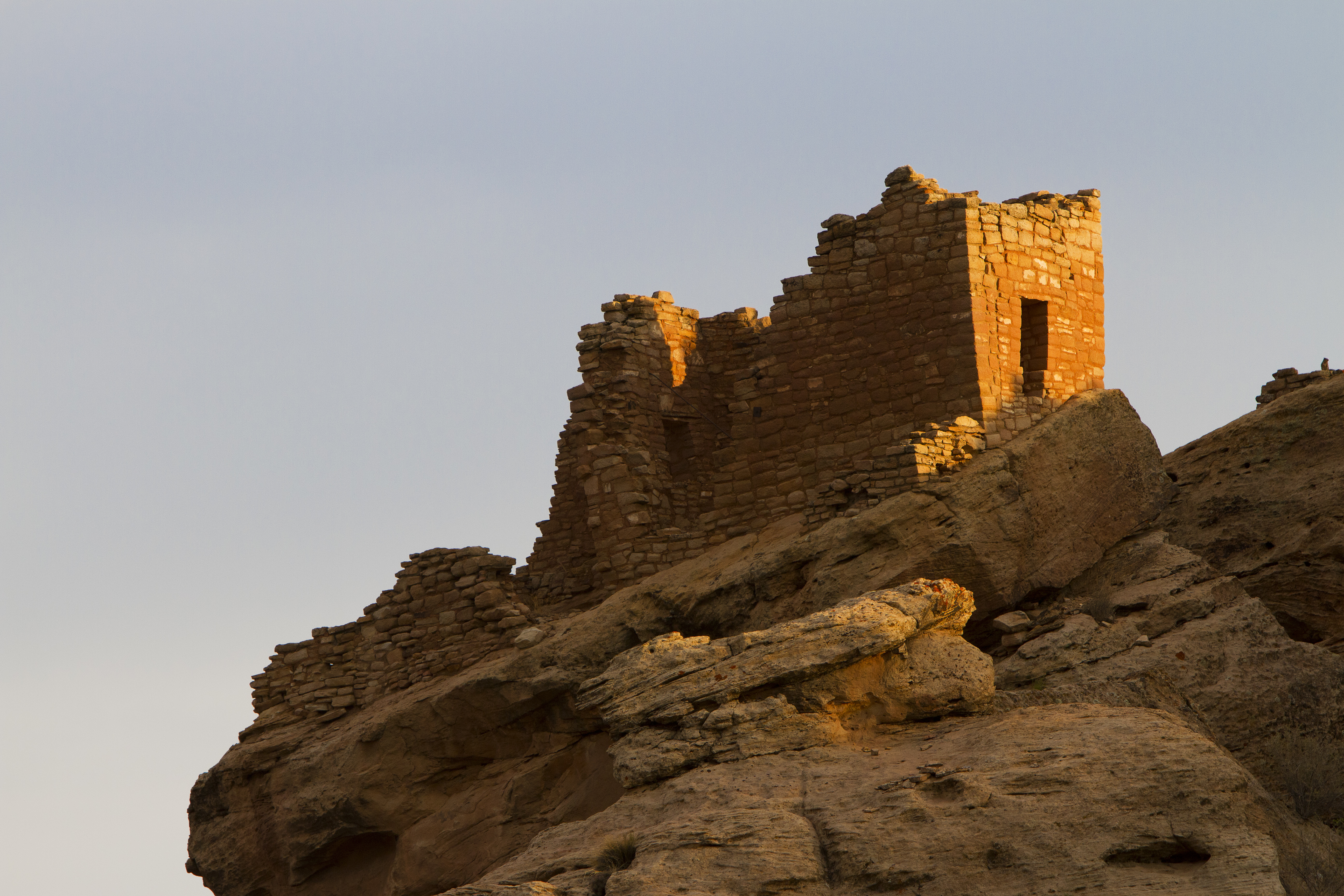 (NPS photo by Andrew Kuhn)